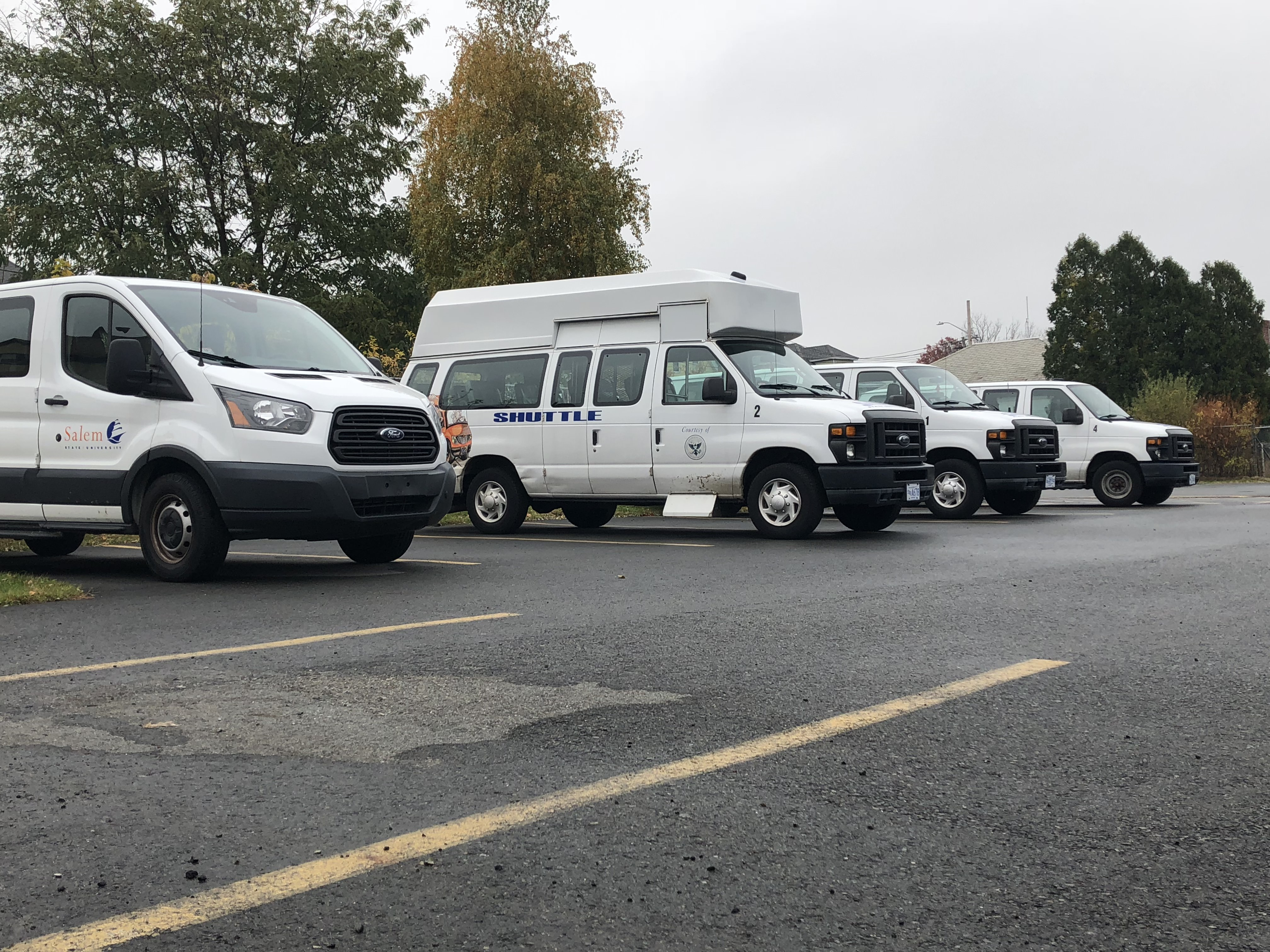 Salem State University Student Shuttle Vans Parked in the Stanley Parking Lot on Canal St., Nov. 1, 2018.